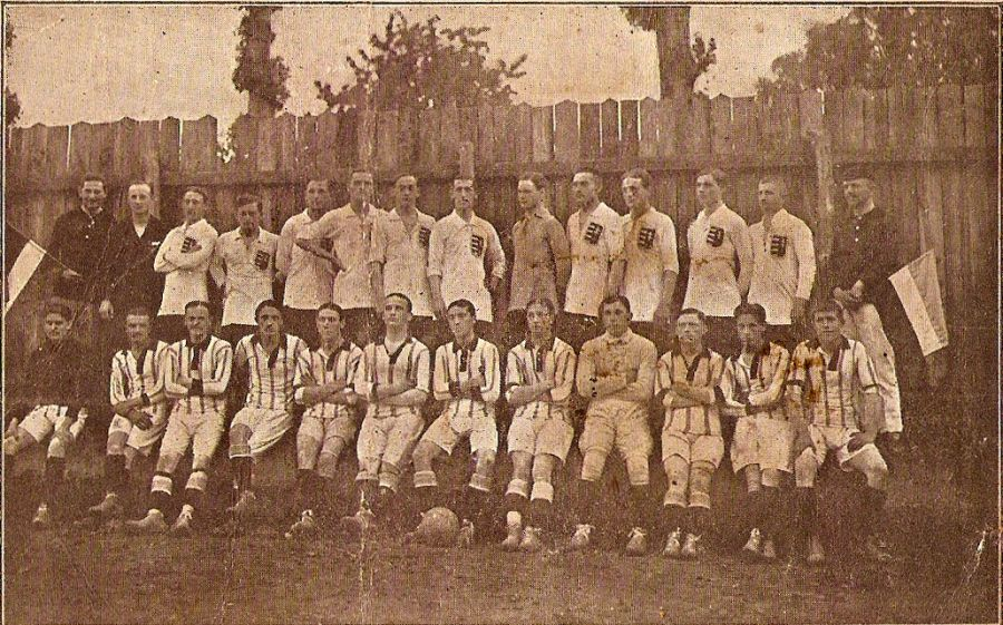 The Romanian football champions Chinezul Timisoara at the 1 June 1914